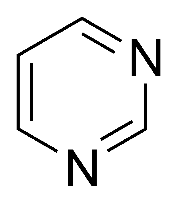 Chemical structure of pyrimidine, a simple aromatic ring